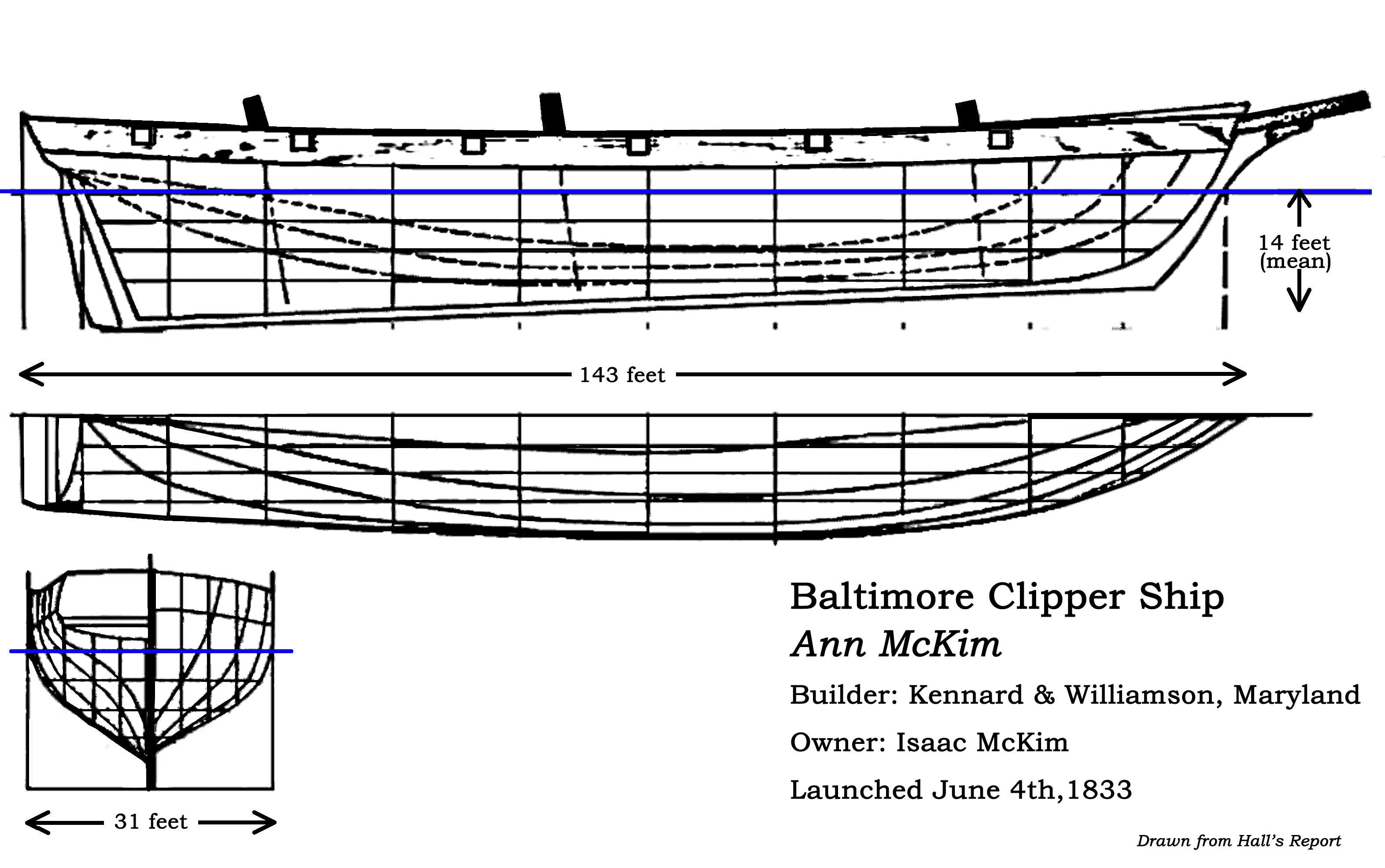 Ann McKim (clipper) lines from Halls report